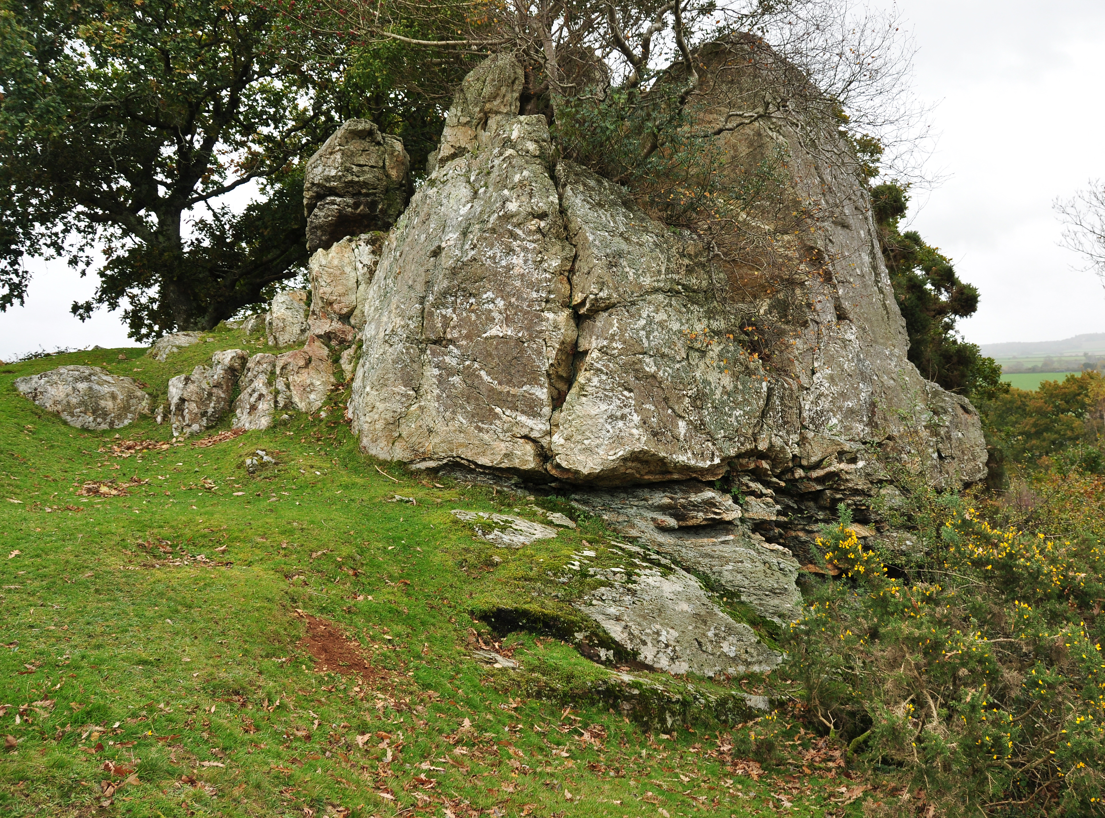 Berra Tor, the southwesternmost tor on Dartmoor, near Buckland Monachorum.